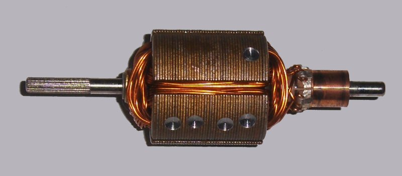 A rotor from a small DC fan motor. In the center is the armature winding, wound on the steel magnetic armature. The motor's armature has 6 poles. On the right is the commutator which provides current for the windings. Small countersinks in the outside of the armature are for mechanical balancing.